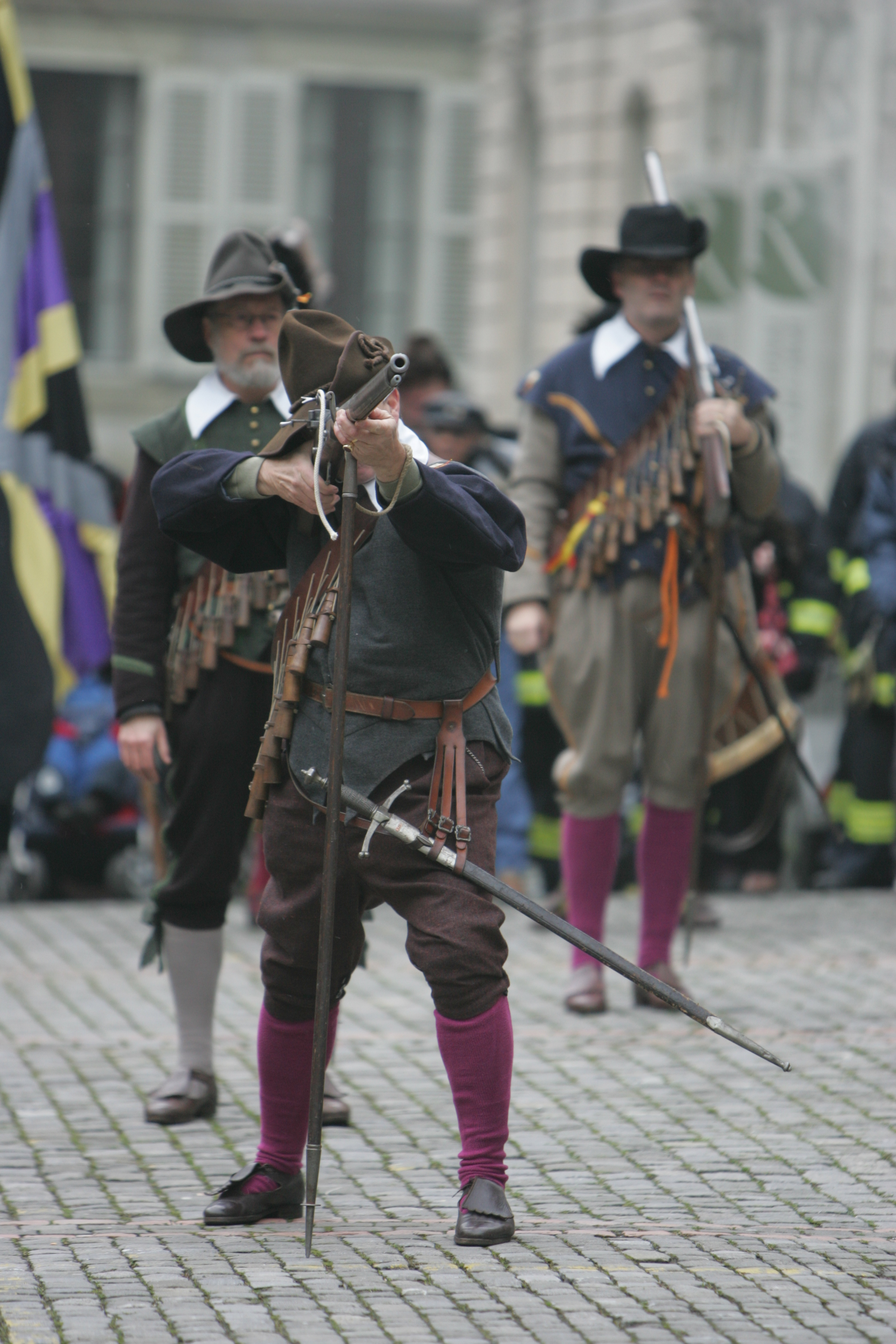 Arquebus firing during the Geneva Escalade of 2009